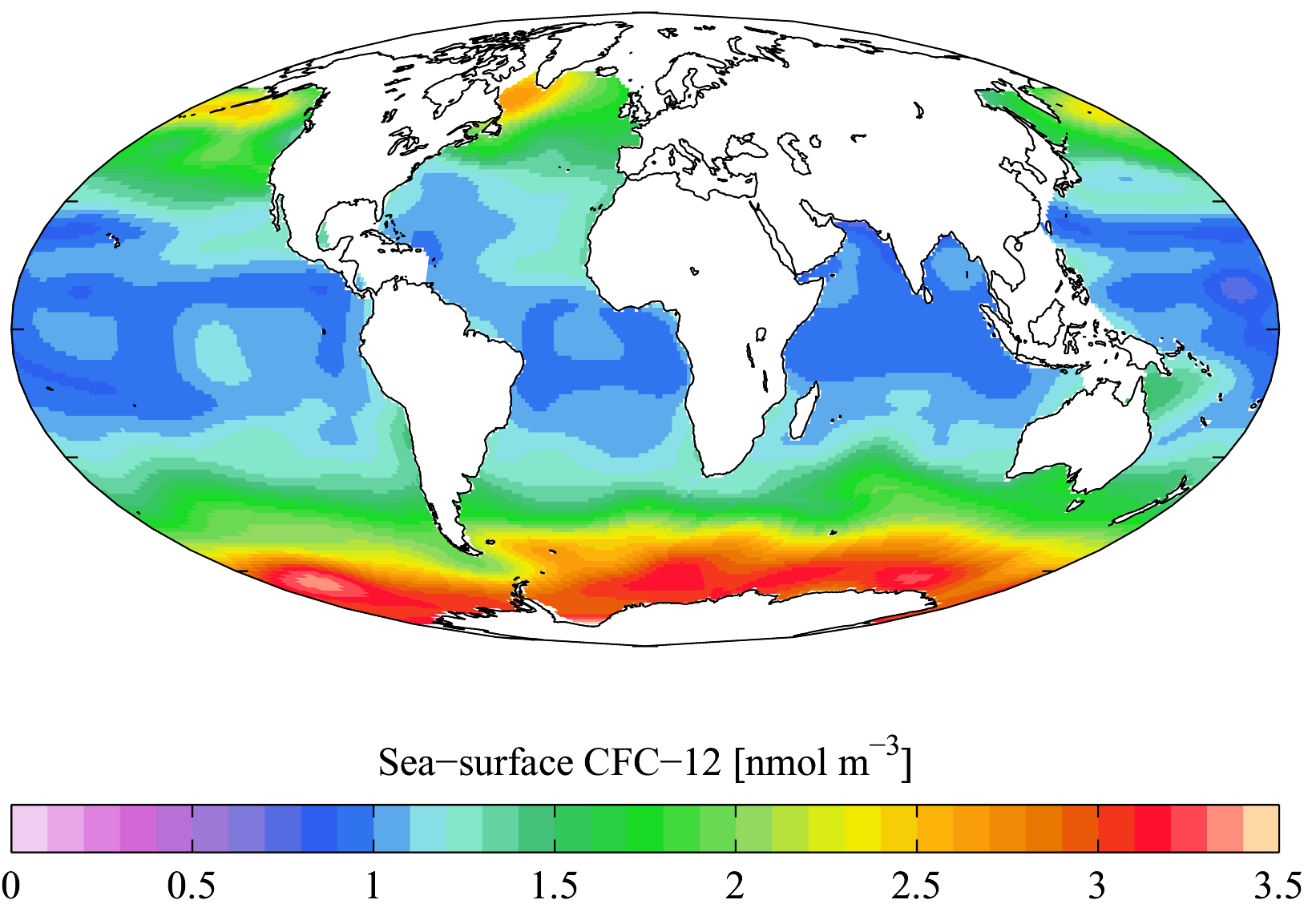 Annual mean sea surface CFC-12 concentration for the present day (1990s) from the Global Ocean Data Analysis Project climatology. CFC-12 here is in nmol m-3 of seawater. Original mass units (kg-1) converted to volume units (m-3) using the SEAWATER toolbox to calculate density from World Ocean Atlas 2005 fields of temperature and salinity. It is plotted here using a Mollweide projection (using MATLAB and the M_Map package). Note that the GLODAP climatology is missing data in certain oceanic provinces including the Arctic Ocean, the Caribbean Sea, the Mediterranean Sea and the Malay Archipelago.